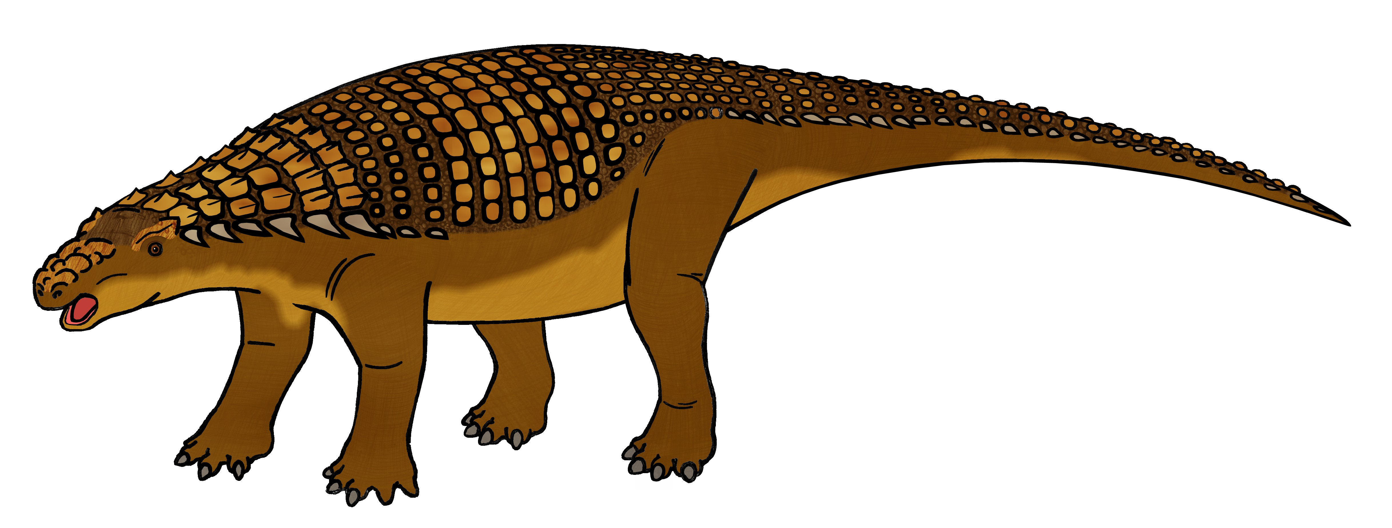 Nodosaurus, a Thyreophoran dinosaur from North America, Cretaceous period. The finds of this genus is very incomplete. The armor and shapes is based on the related Edmontonia/Denversaurus, Sauropelta, Niobrarasaurus and Sauropelta. See also article about Ankylosaurs. Another artists impression of Nodosaurus. Armor of a Nodosaur. Denversaurus+(Edmontonia)+cf.+schlessmani+TANK+Skeleton+-+Fossil+Replica Skeleton of Edmononia/Denversaurus.